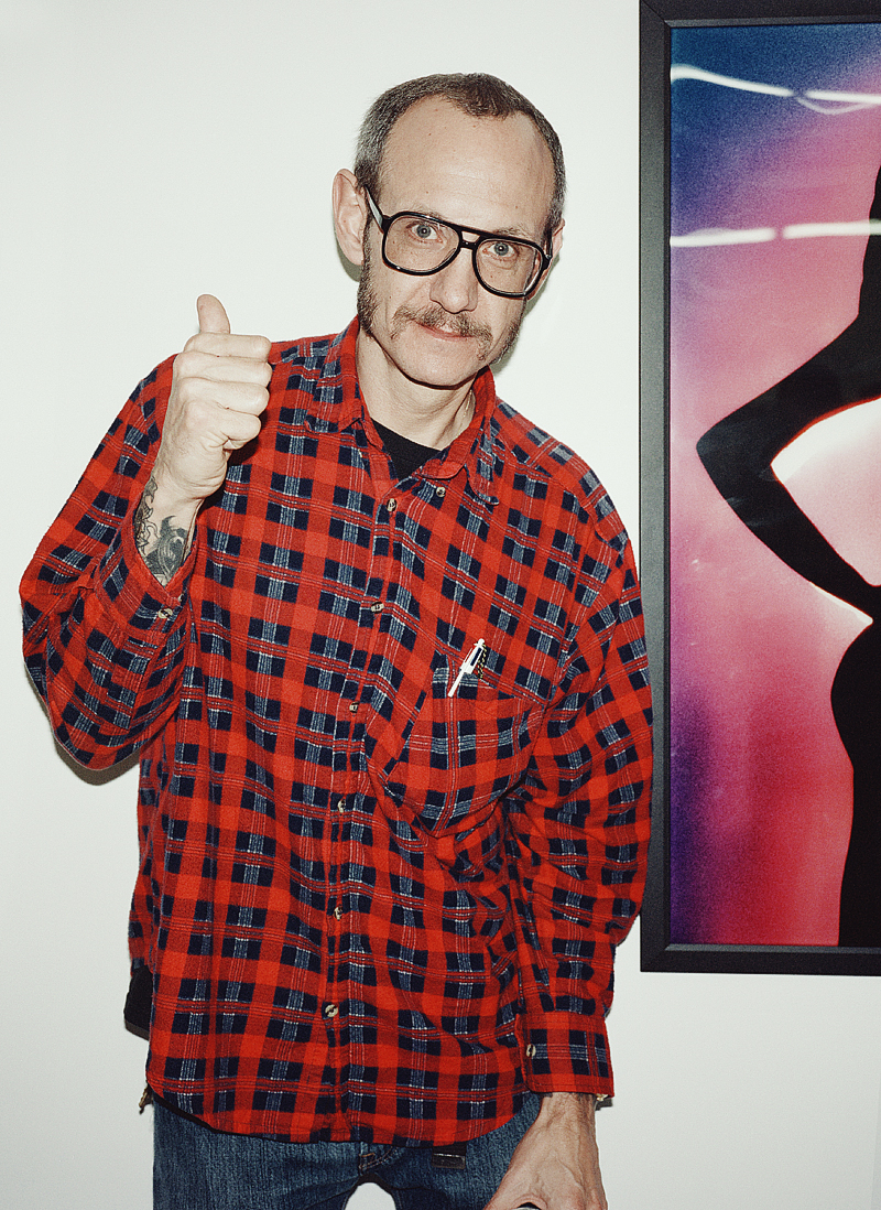 terryrichardson01